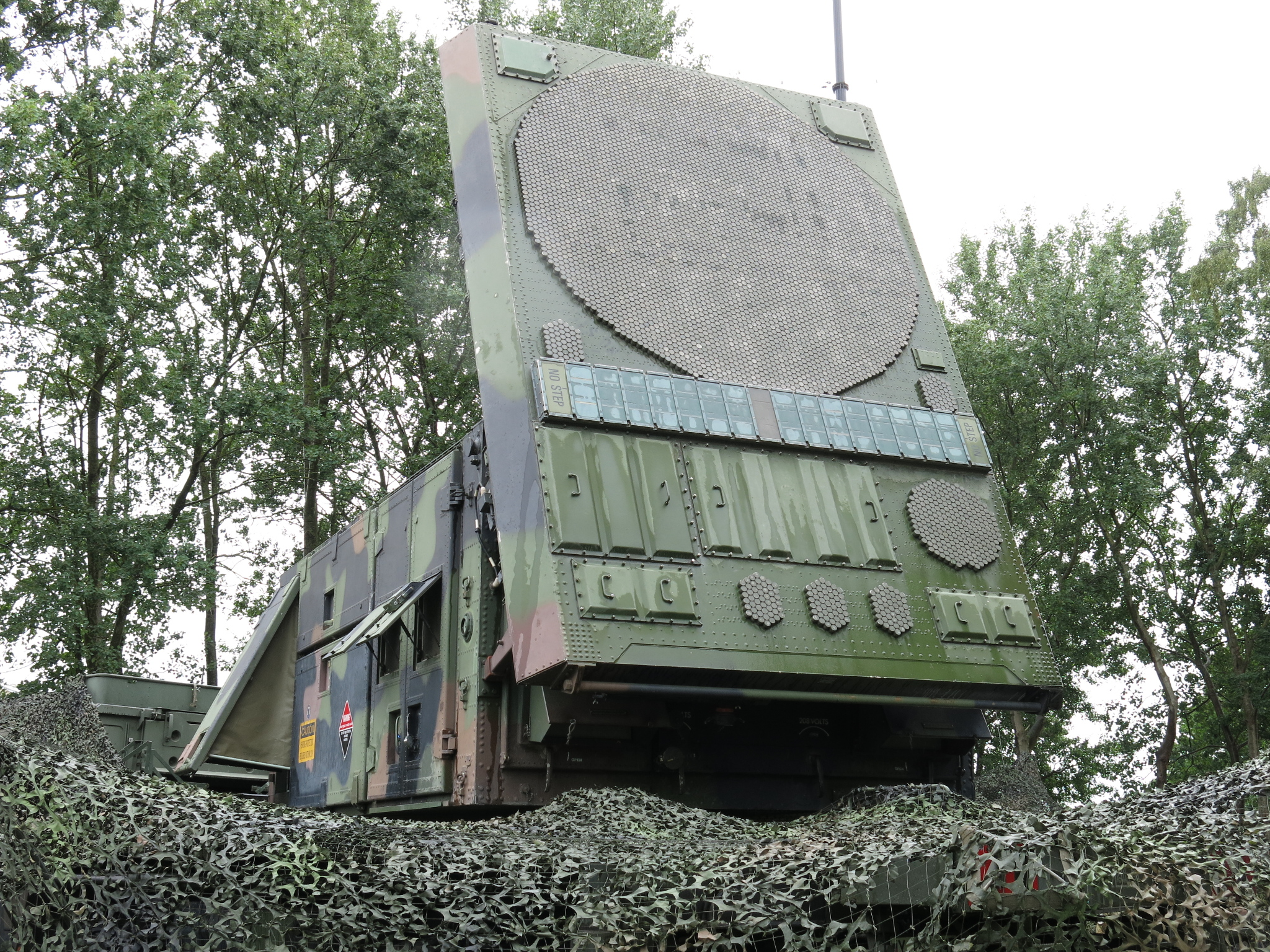 German Air Force AN/MPQ 53